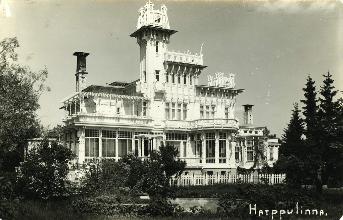 Villa Harppulinna in Kellomäki, Finland.